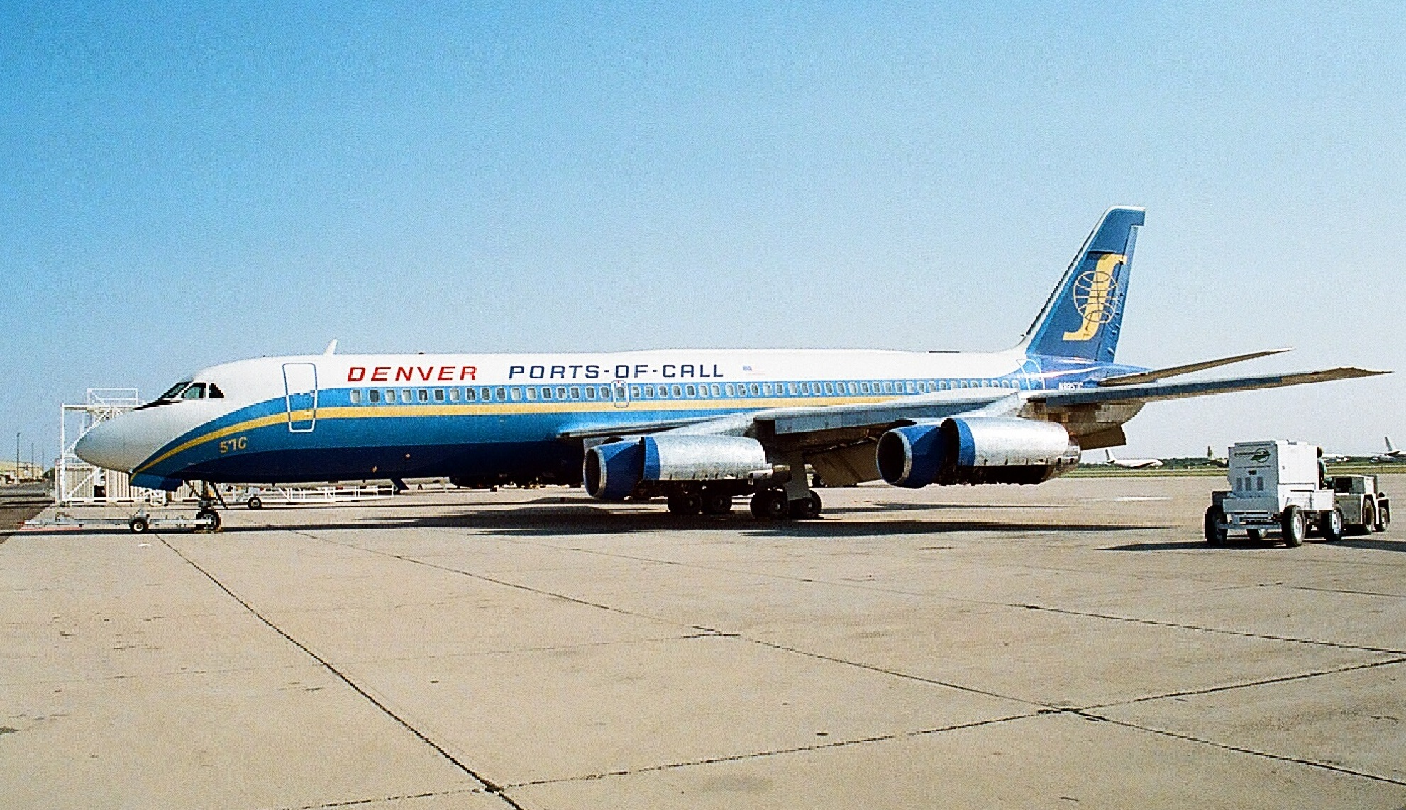 Convair CV-990 (Denver Ports of Call) N8357C at Marana (Pinal) (MZJ), 1987